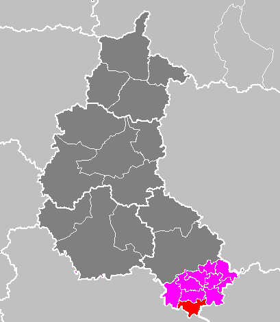 Maps of arrondissements and cantons of France: Arrondissement de Langres - Canton de Prauthoy.PNG